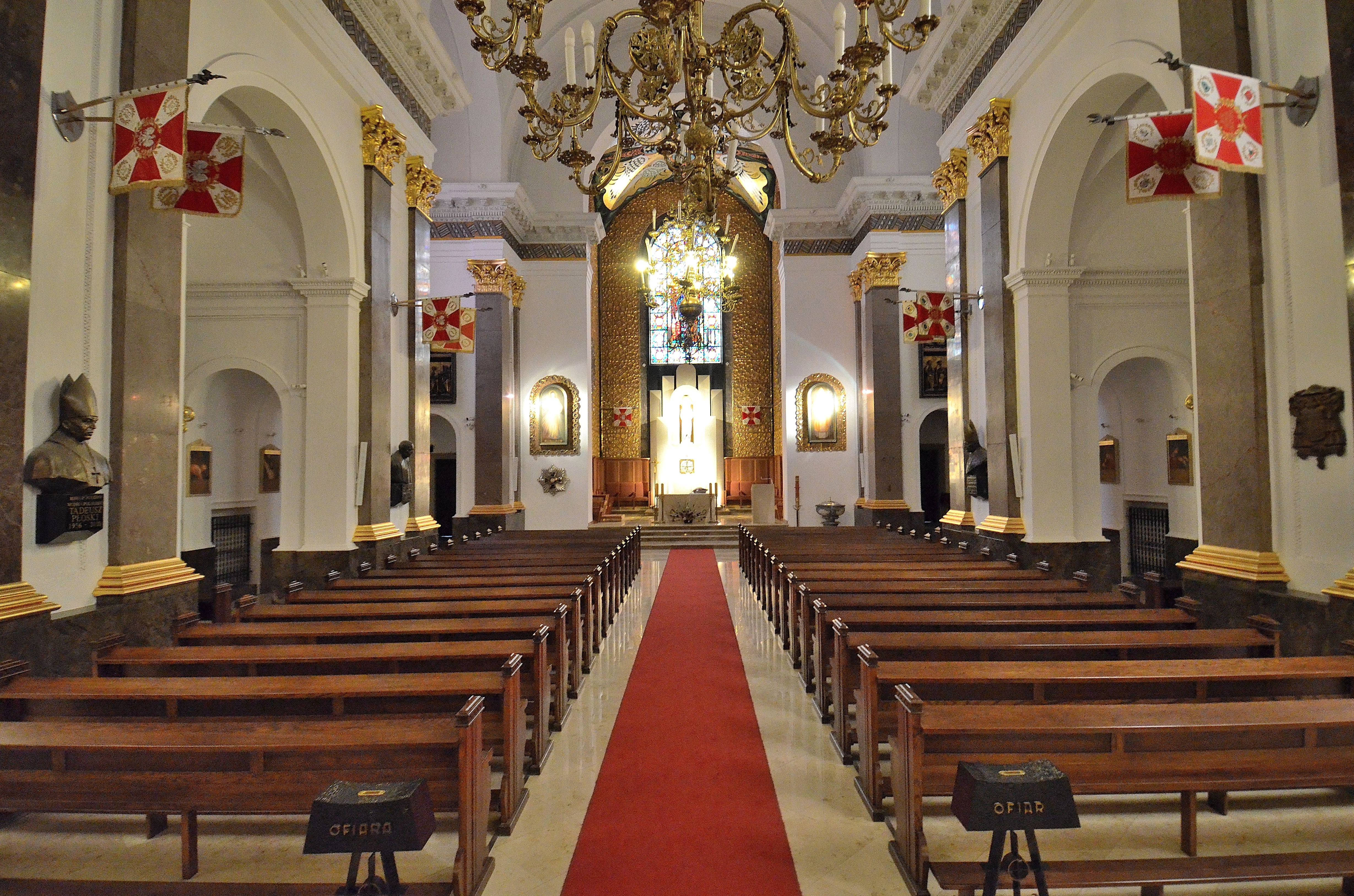 Interior of the Polish Army cathedral in Warsaw